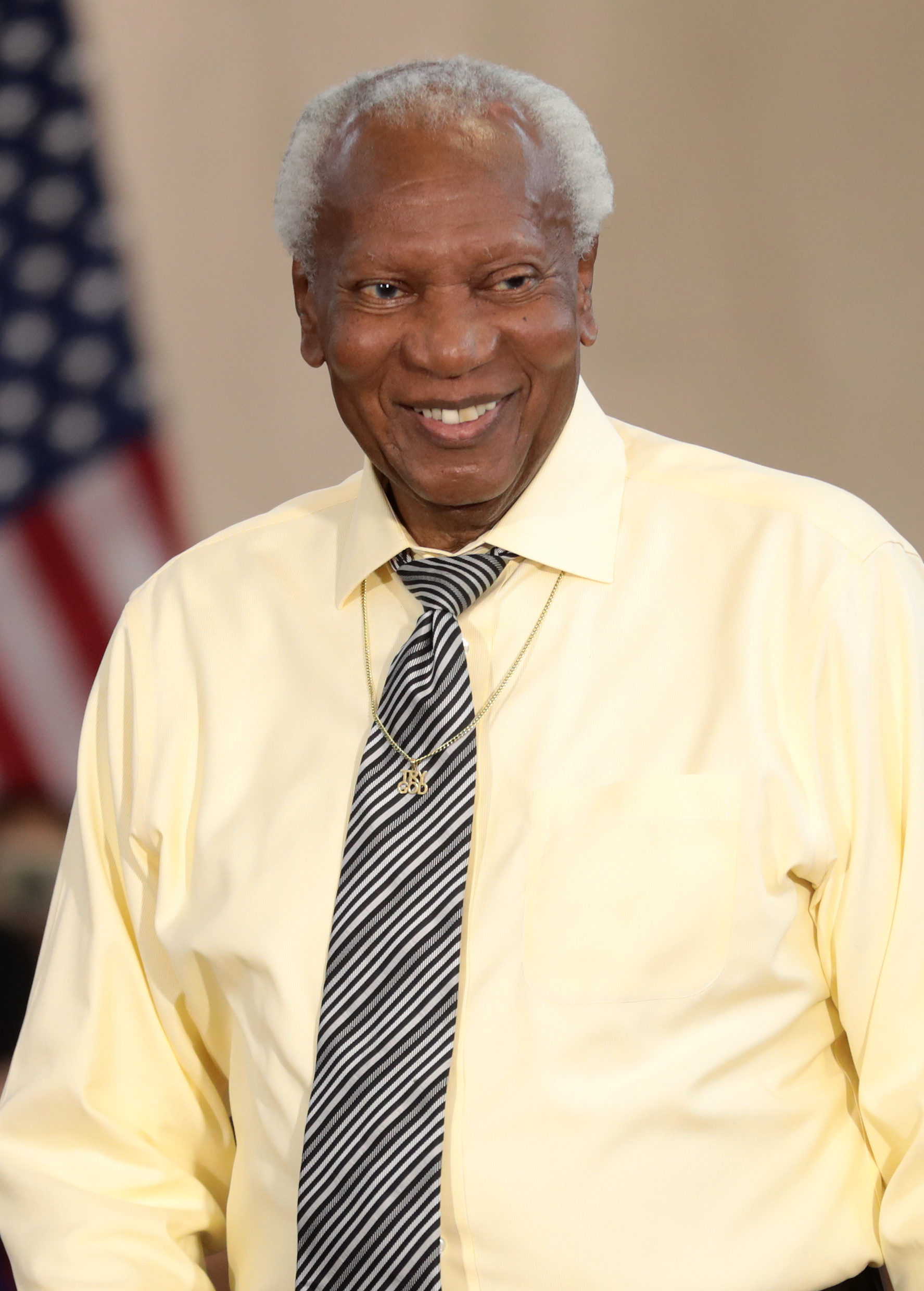 Simon Estes speaking at an event in Des Moines, Iowa.